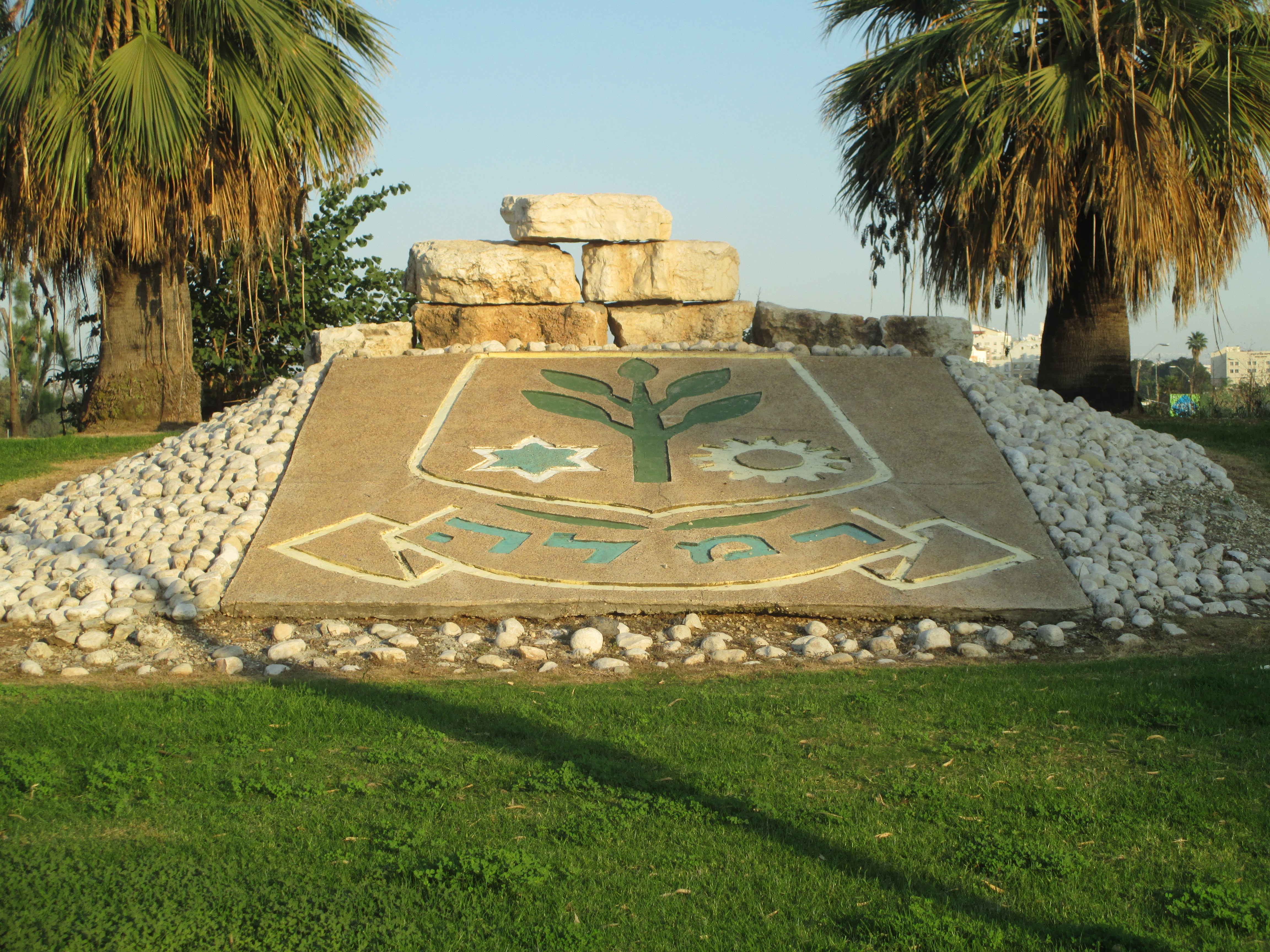 Entrance to Ramla